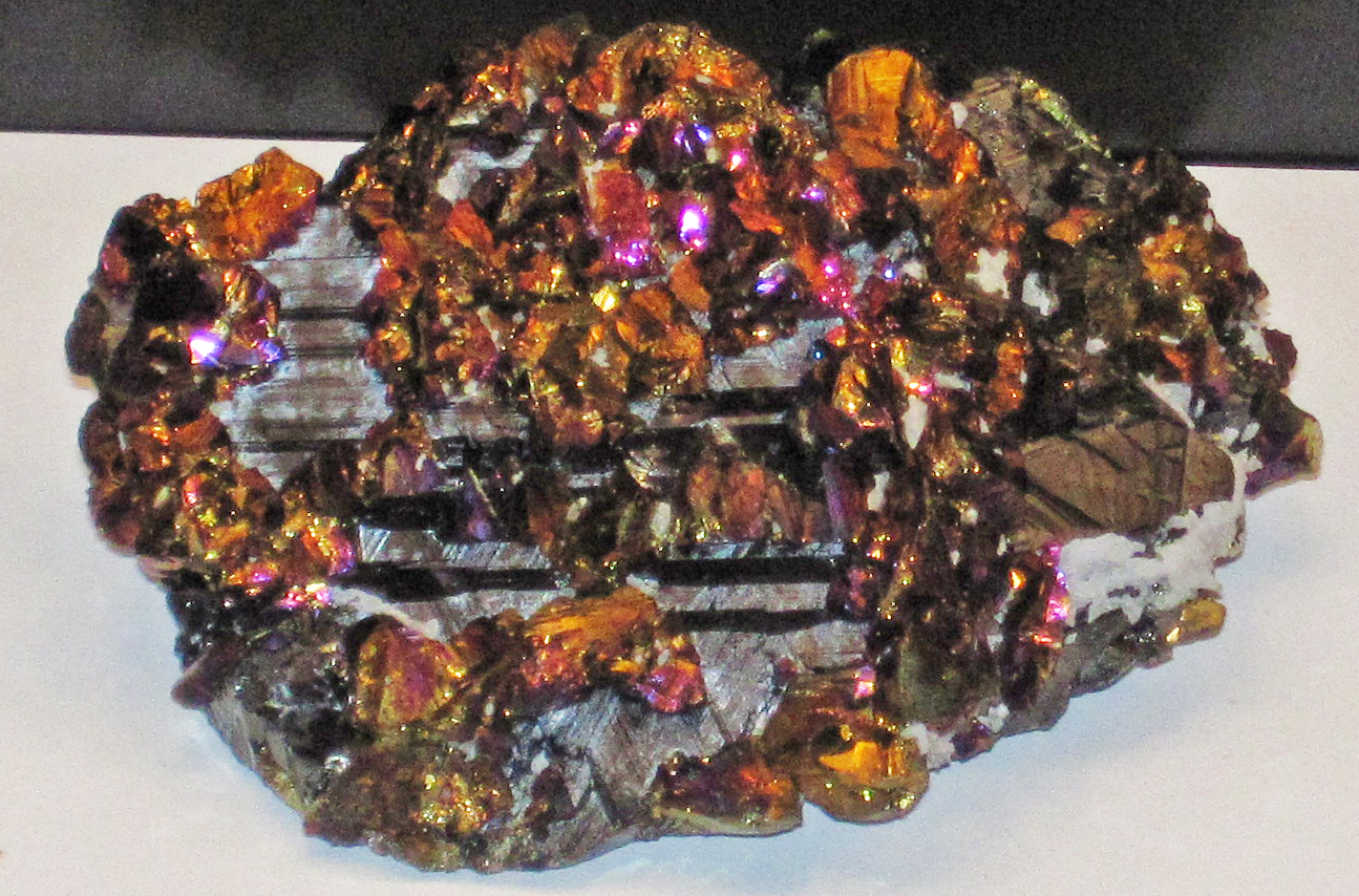 Chalcopyrite on sphalerite from Romania. (public display, Carnegie Museum of Natural History, Pittsburgh, Pennsylvania, USA) A mineral is a naturally-occurring, solid, inorganic, crystalline substance having a fairly definite chemical composition and having fairly definite physical properties. At its simplest, a mineral is a naturally-occurring solid chemical. Currently, there are over 4900 named and described minerals - about 200 of them are common and about 20 of them are very common. Mineral classification is based on anion chemistry. Major categories of minerals are: elements, sulfides, oxides, halides, carbonates, sulfates, phosphates, and silicates. The sulfide minerals contain one or more sulfide anions (S-2). The sulfides are usually considered together with the arsenide minerals, the sulfarsenide minerals, and the telluride minerals. Many sulfides are economically significant, as they occur commonly in ores. The metals that combine with S-2 are mainly Fe, Cu, Ni, Ag, etc. Most sulfides have a metallic luster, are moderately soft, and are noticeably heavy for their size. These minerals will not form in the presence of free oxygen. Under an oxygen-rich atmosphere, sulfide minerals tend to chemically weather to various oxide and hydroxide minerals. Chalcopyrite is a copper iron sulfide mineral (CuFeS2). Many pyrite-like minerals exist, such as pyrite, marcasite, arsenopyrite, pyrrhotite, and chalcopyrite. Chalcopyrite has a metallic luster, a deep yellowish-brassy color, a dark gray streak, a hardness of about 3.5 to 4, and no cleavage. Many specimens have a multicolored iridescent tarnish, which can be artificially produced by exposure to certain chemicals (often acid). Chalcopyrite is an important copper ore mineral. Locality: Bolut Mine, Cavnic, Romania Photo gallery of chalcopyrite